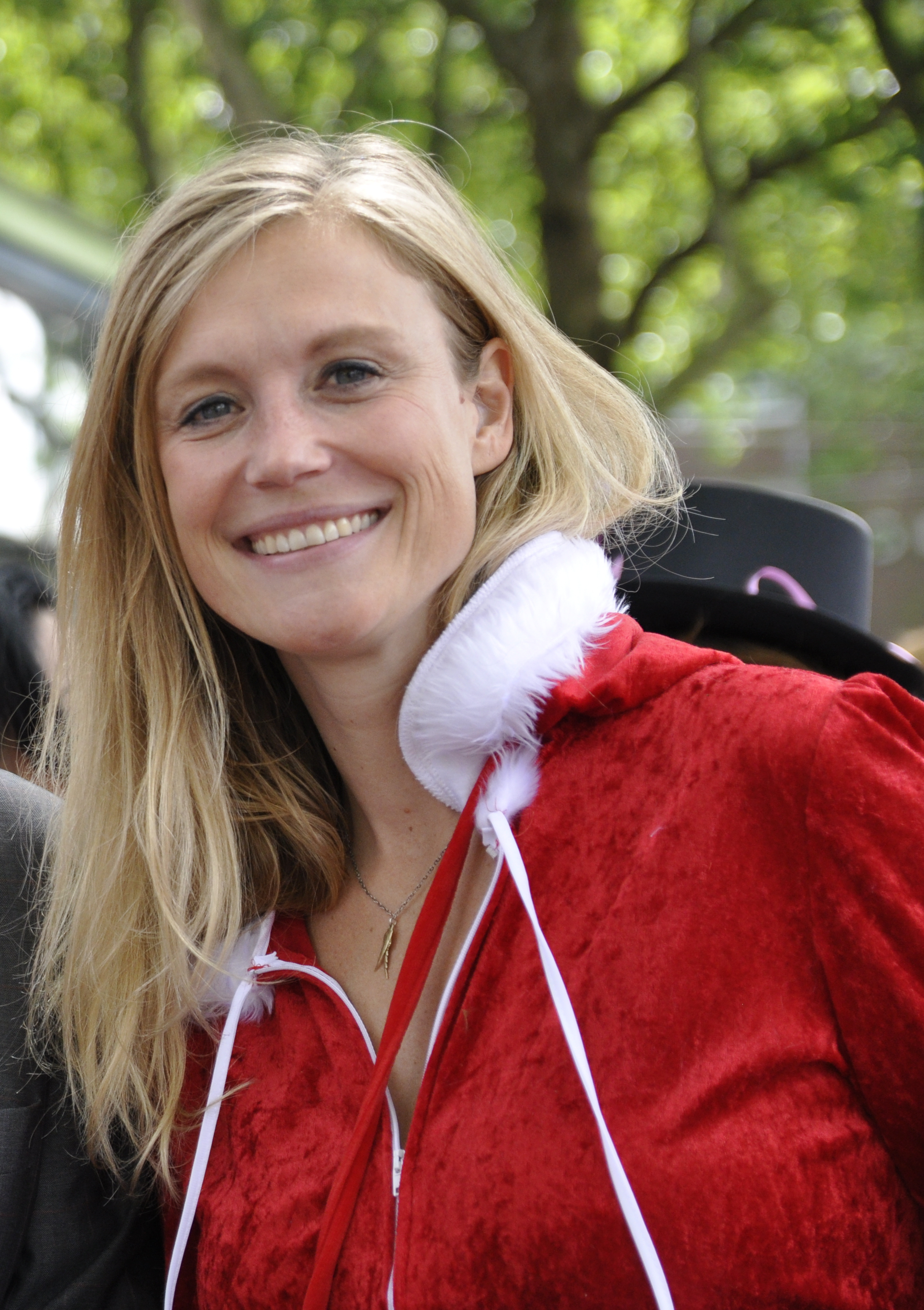 Sophie Hilbrand at Gay Pride Amsterdam 2012